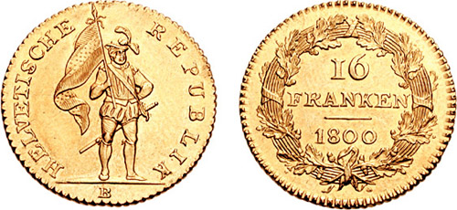 16 Franken coin of the Helvetic Republic (7.61 gm, 6h), Bern mint. Dated 1800. HELVETISCHE REPUBLIK, B in exergue, Swiss soldier standing facing, holding banner in right hand and left hand on hip. 16 FRANKEN 1800 in three lies across field; all within wreath. Friedberg 281; KM 12